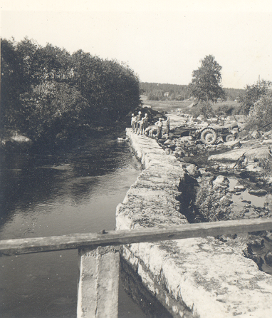 The demolition site of the Mattilankoski dam, seen upstream from the bridge. The part of the dam located upstream from the bridge was demolished as a part of dam altering works.